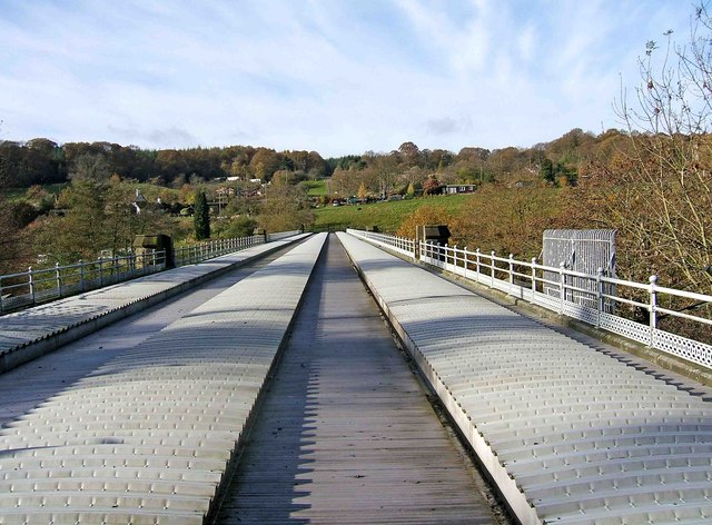 Aqueduct over River Severn. View of the top of the aqueduct across the River Severn. Unfortunately you're not allowed to cross here, and there are physical barriers to make sure you don't. The aqueduct carries the water pipelines from the Elan Valley to Birmingham. 1576667.